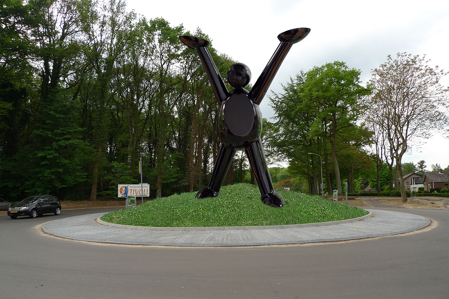 The last of the series of "Eggy" Sculptures, Alex Vermeulen, 2007-2012 height 12 mtr.